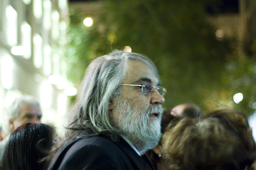 El Greco premiere at Pallas theater 15th October 2007. Taken outside the theater away from rapid fire flashes, giving that natural atmosphere. For all those who admire and appreciate Vangelis as personality and artist.